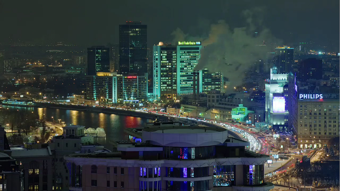 World Trade Center in Moscow